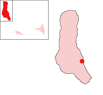 Pidjani, Grande Comore, Comoros Location Map; created with the GIMP. Made by User:Acntx.